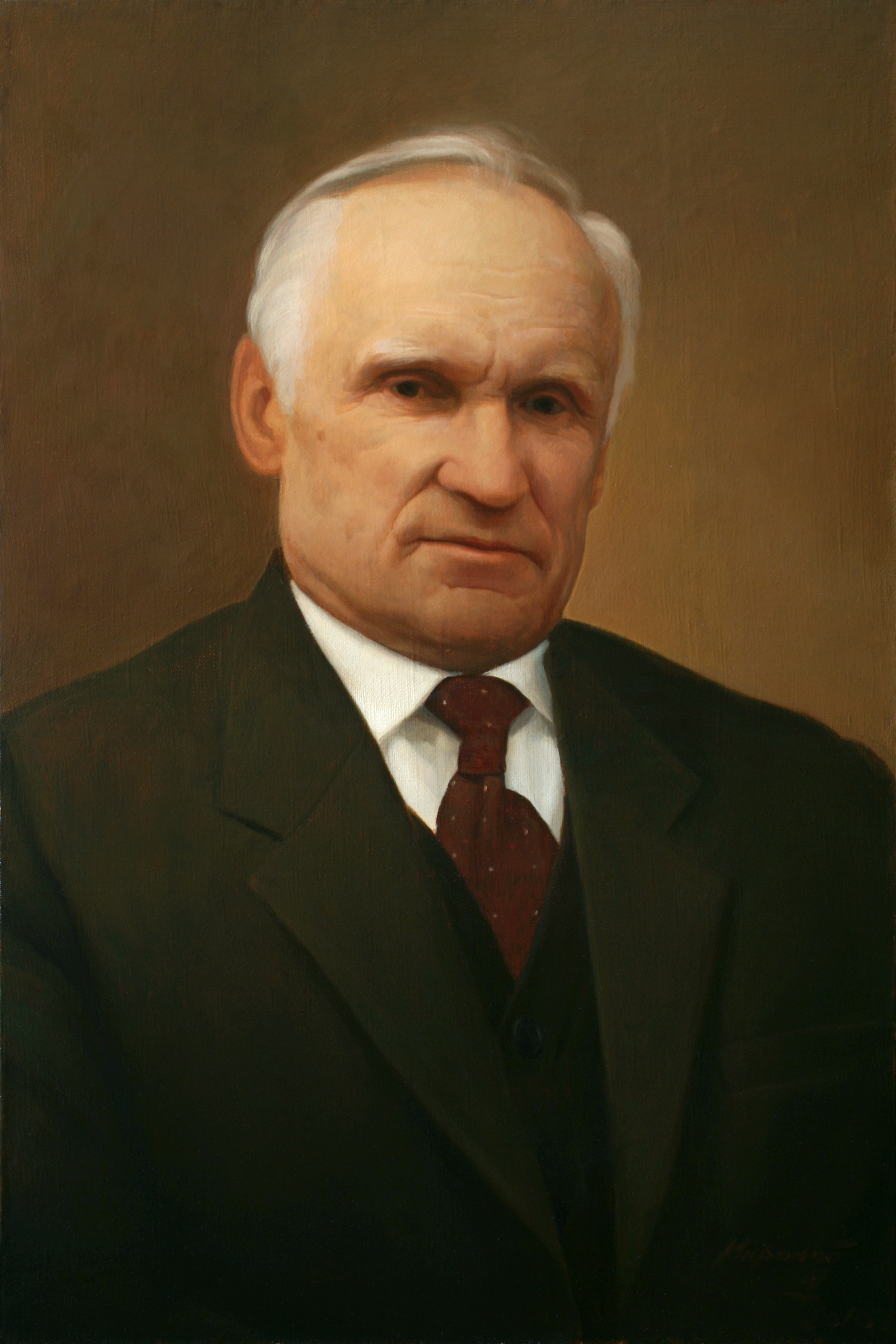 Portrait of the Professor of the Moscow theological Academy Alexei Ilyich Osipova. 2010. Canvas, oil. 60 x 40. Artist A.N. Mironov